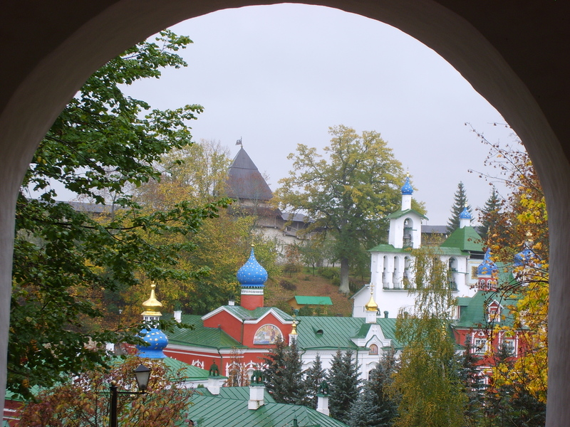 Pskovo-Pechersky Monastery